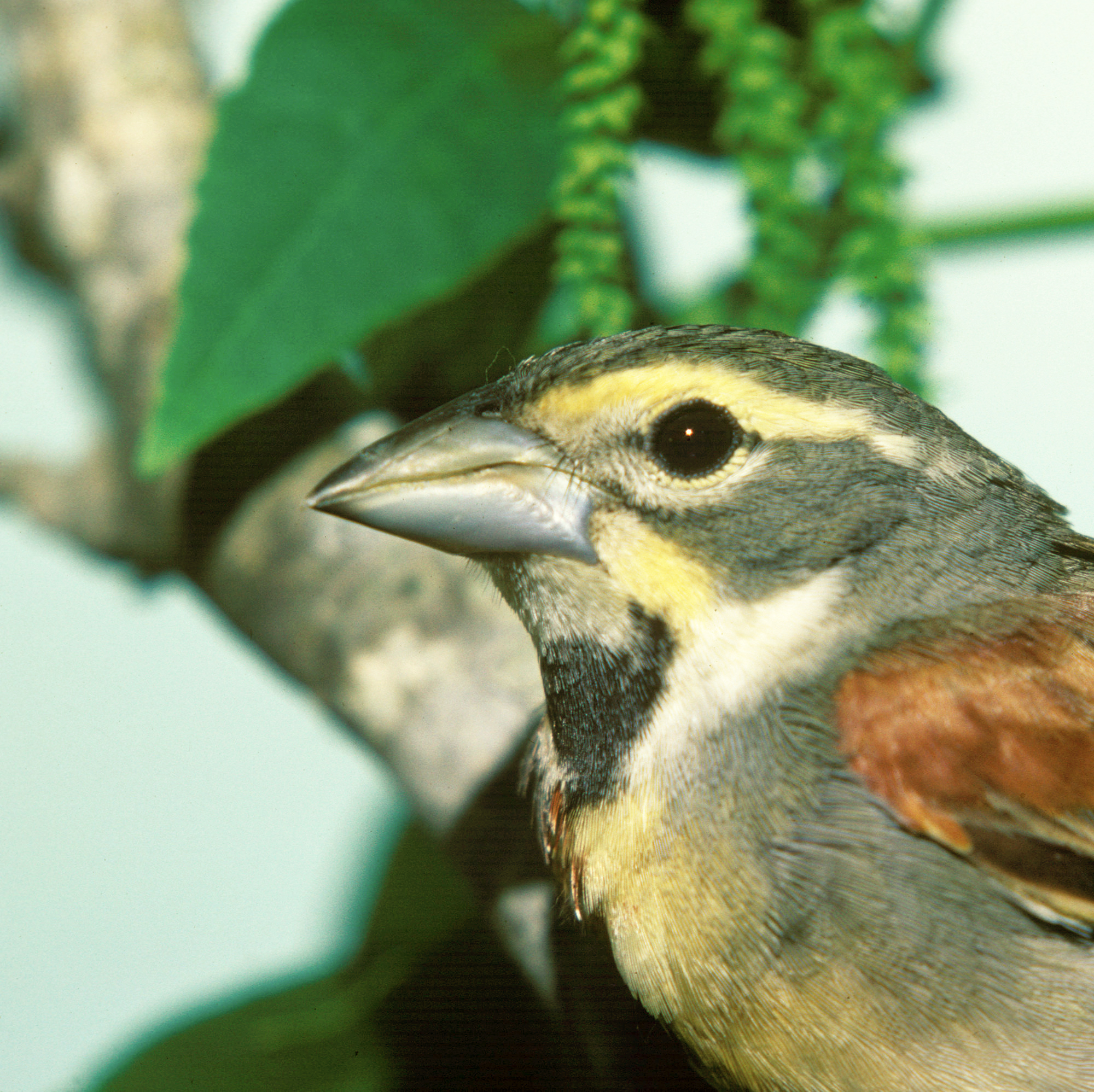 Dickcissel Spiza americana